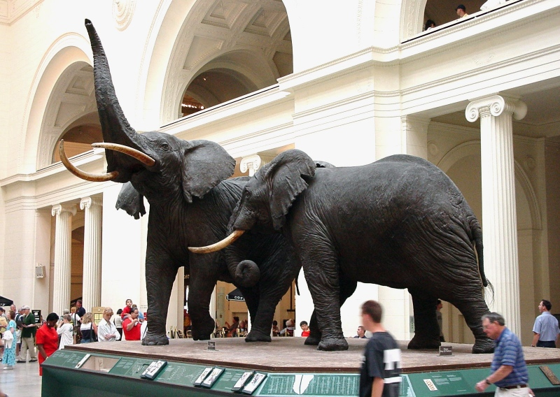 Field Museum of Natural History, Chicago, Illinois, USA